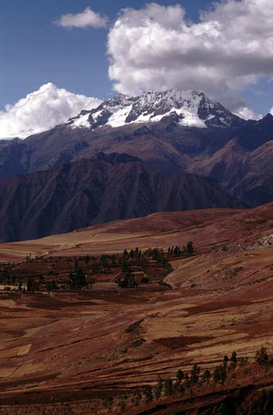 Cuzco mountains